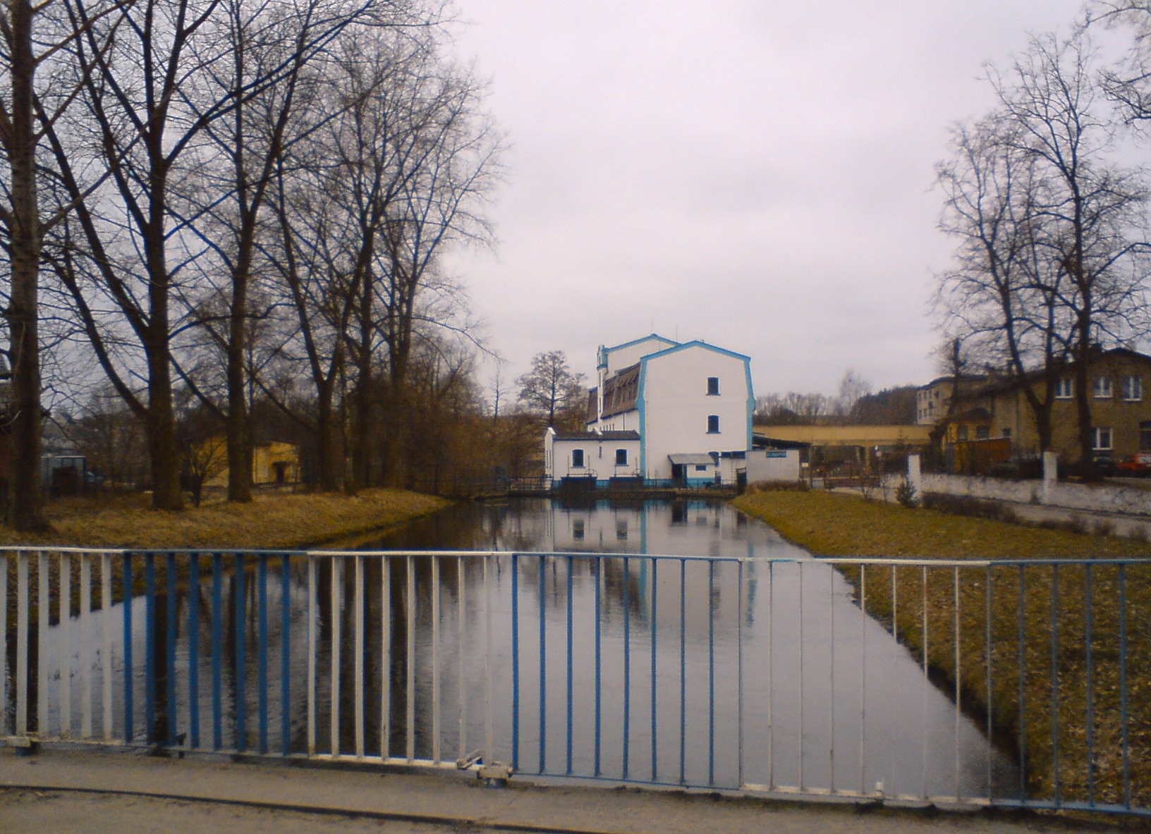 Młyn przy rzece Wel w Bratianie